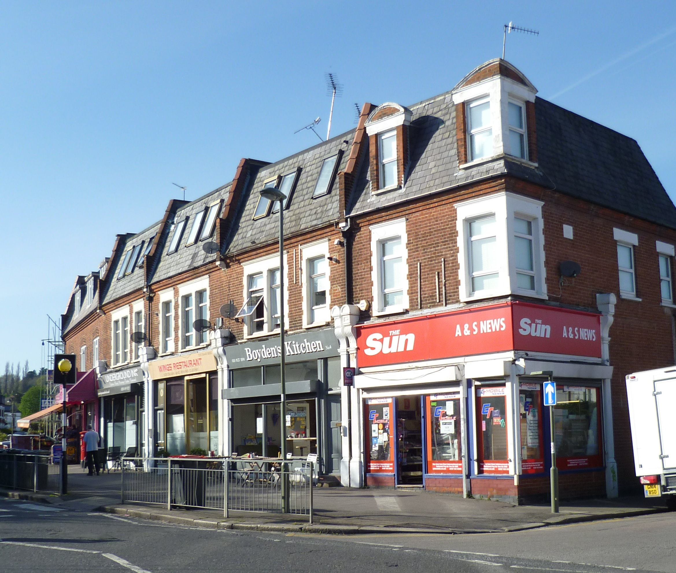 Potters Road shops, Barnet.